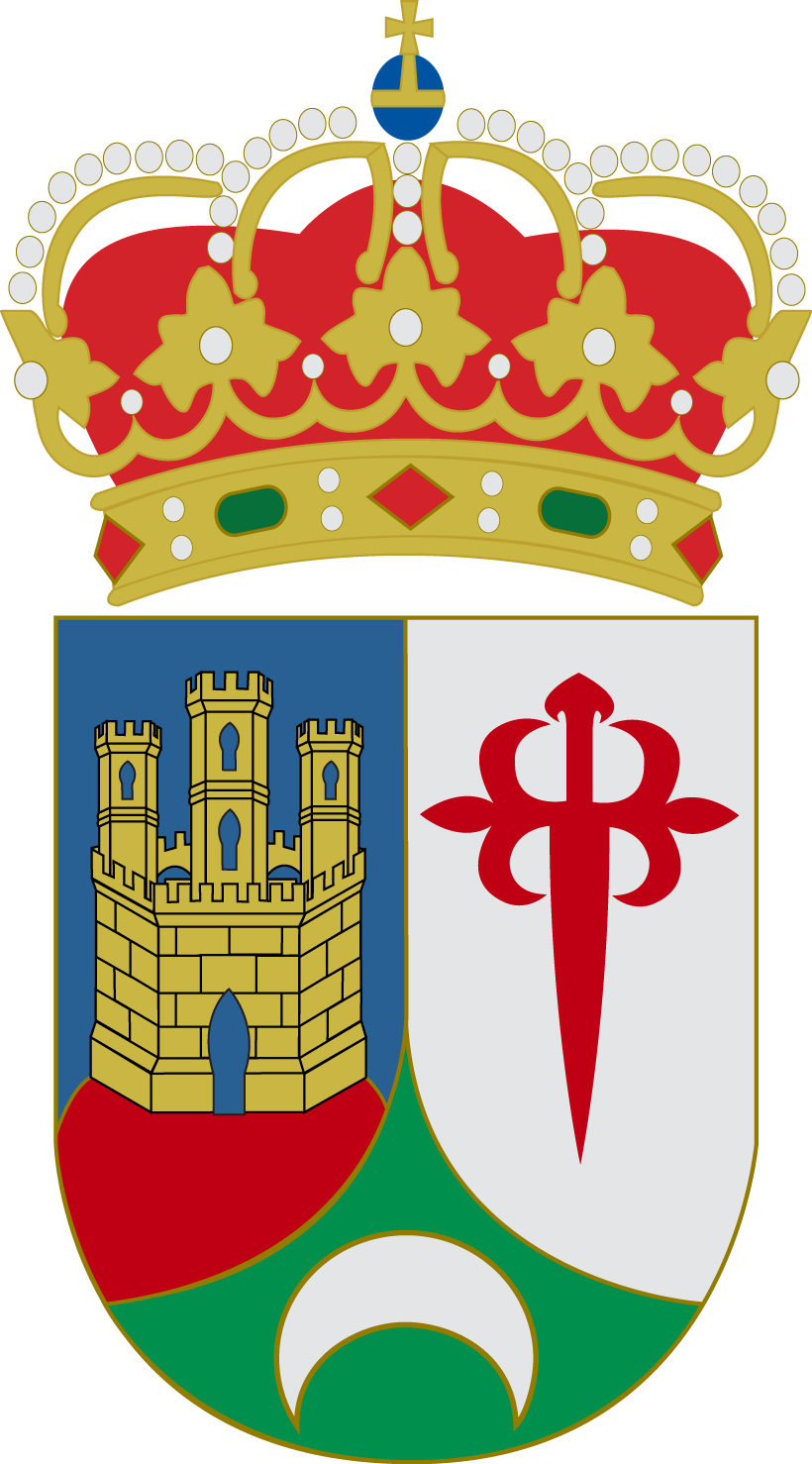 Coat of arms of Alhambra, Ciudad Real (Spain)